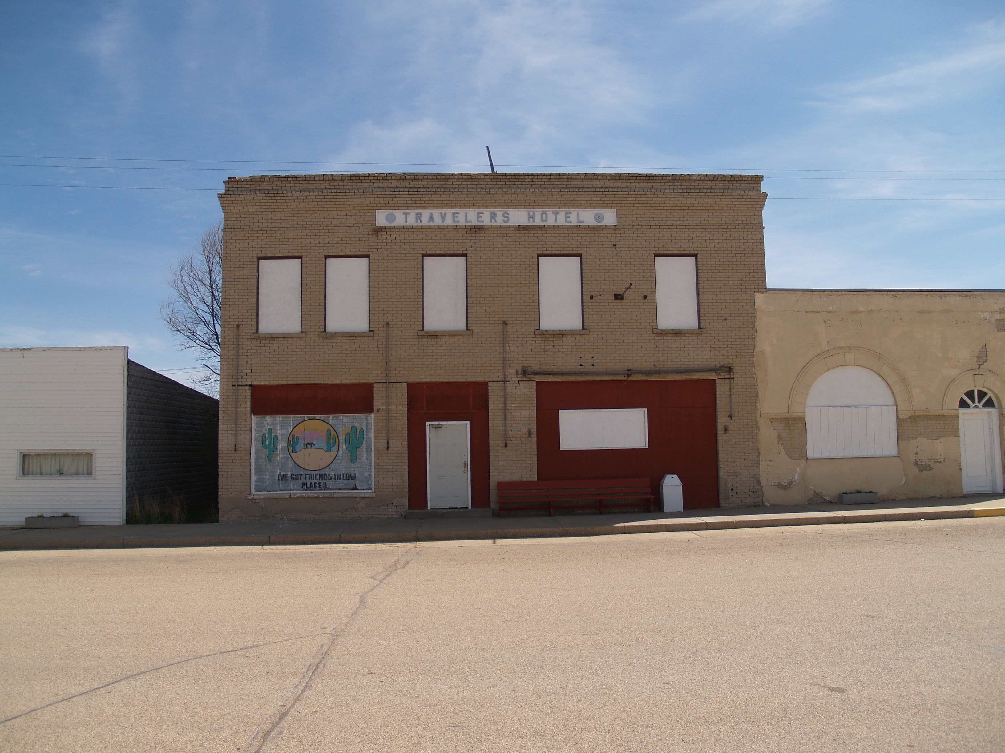 The Travelers Hotel in Noonan, North Dakota, which is listed on the National Register of Historic Places.